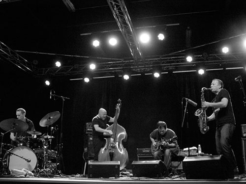 The Thing (band), Mats Gustavsson, featuring Otomo-Yoshihide